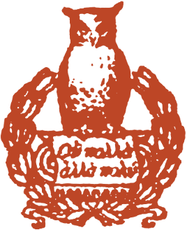 Logo of Henry Holt and Company, as it appeared in the book In the Dwellings of the Wilderness by C. Bryson Taylor. The Classical Greek motto "ou polla alla polu" means "not many things, but much" (that is, not quantity but quality).